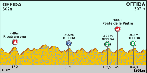 Tirreno Adreatico 2012 stage 6